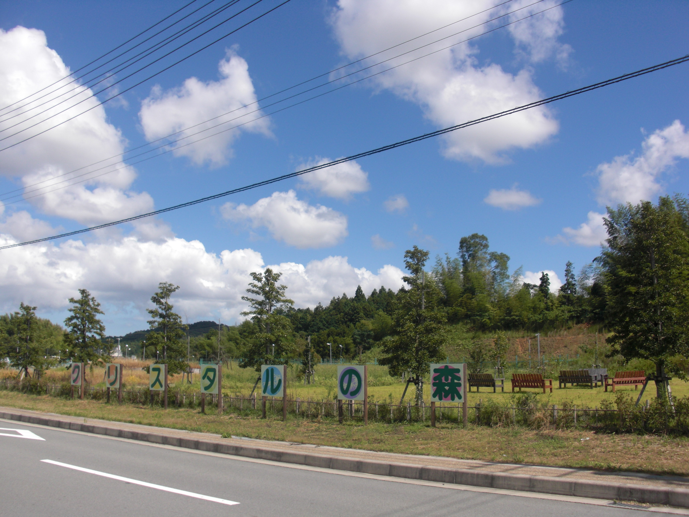 This is the Crystal Forest or Kurisutaru no Mori, which is in Taki, Mie, Japan.